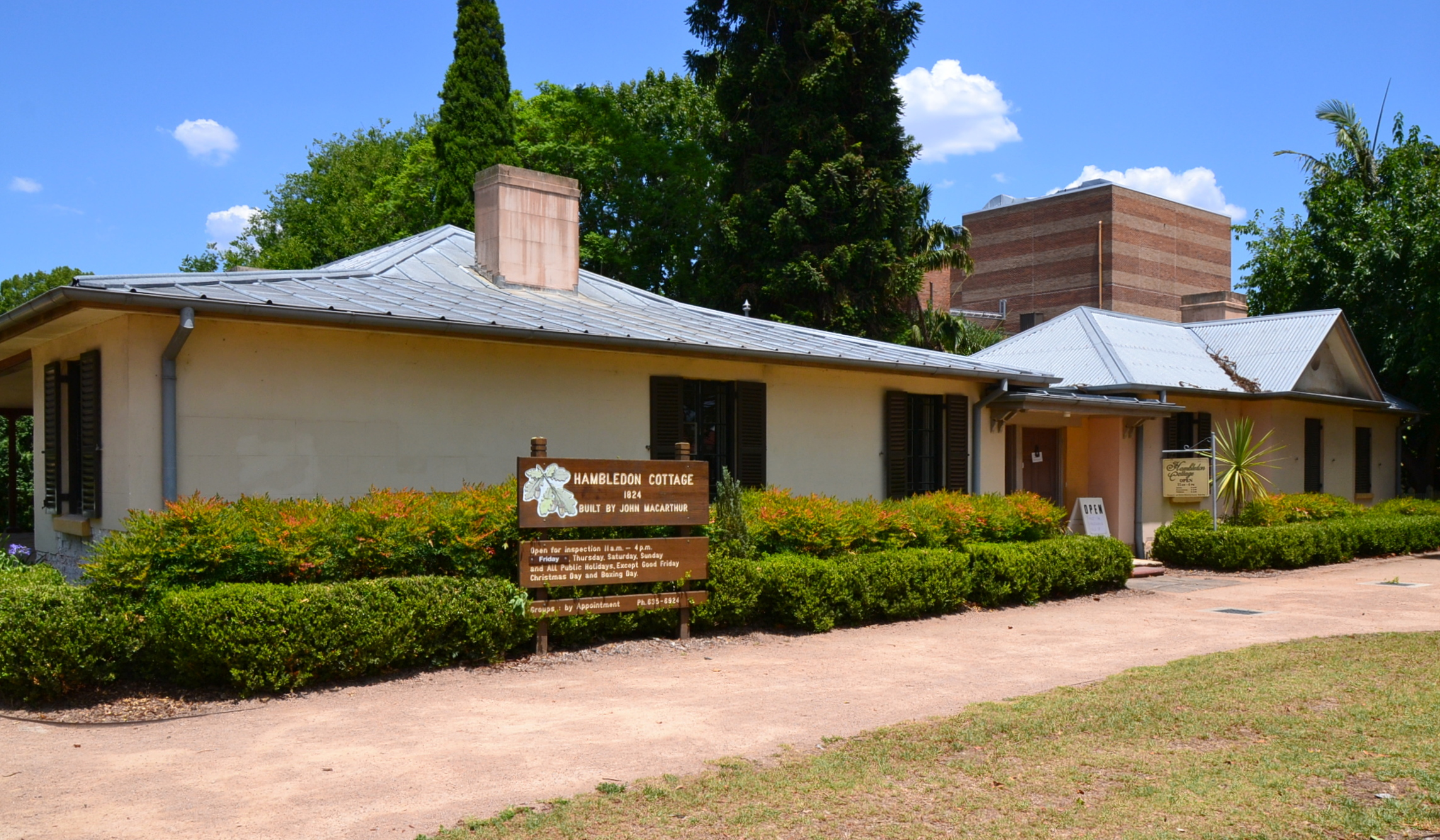 Hambledon Cottage, Harris Park, Sydney